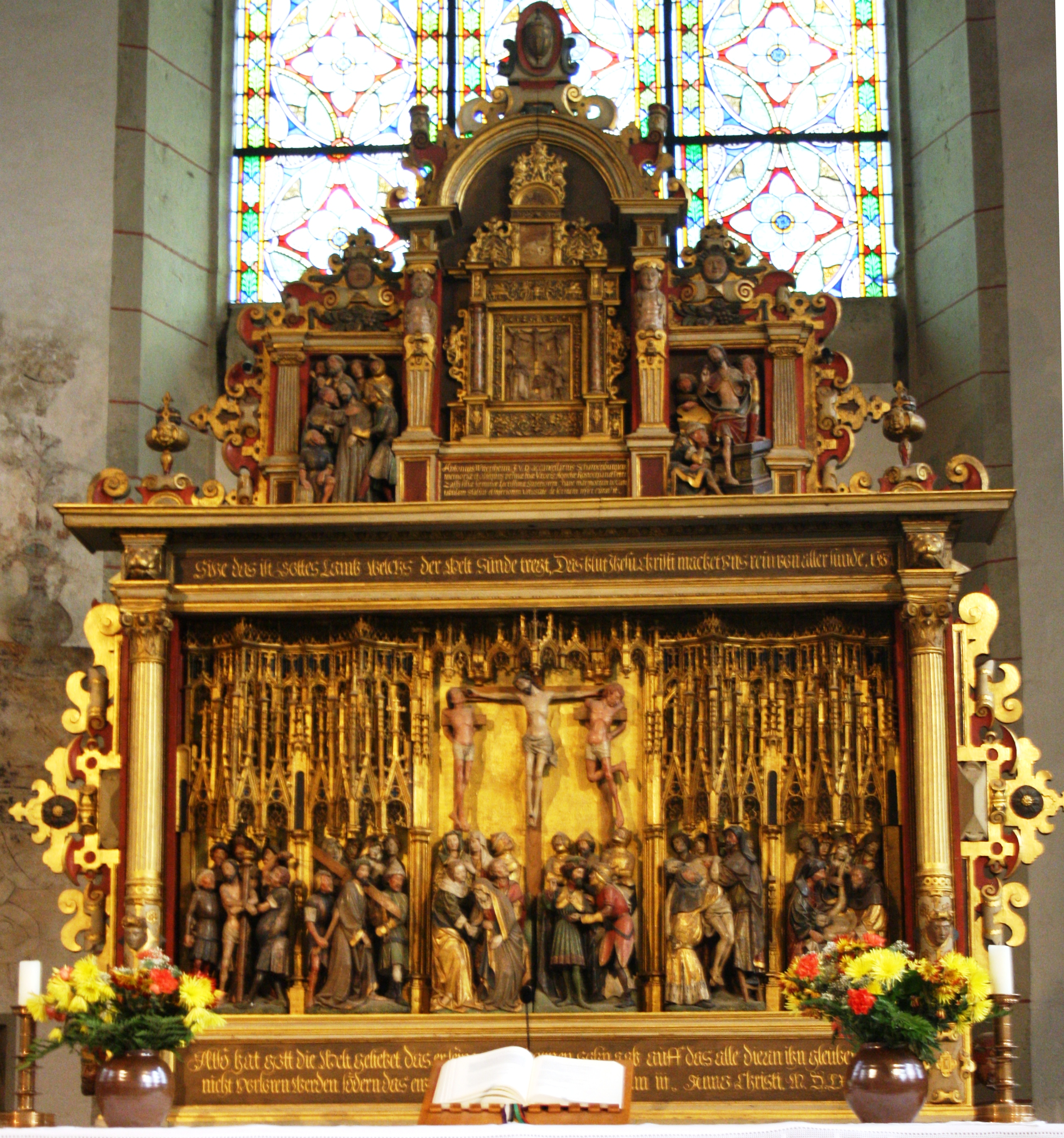 Saint Martin in Stadthagen, Germany. Altar.